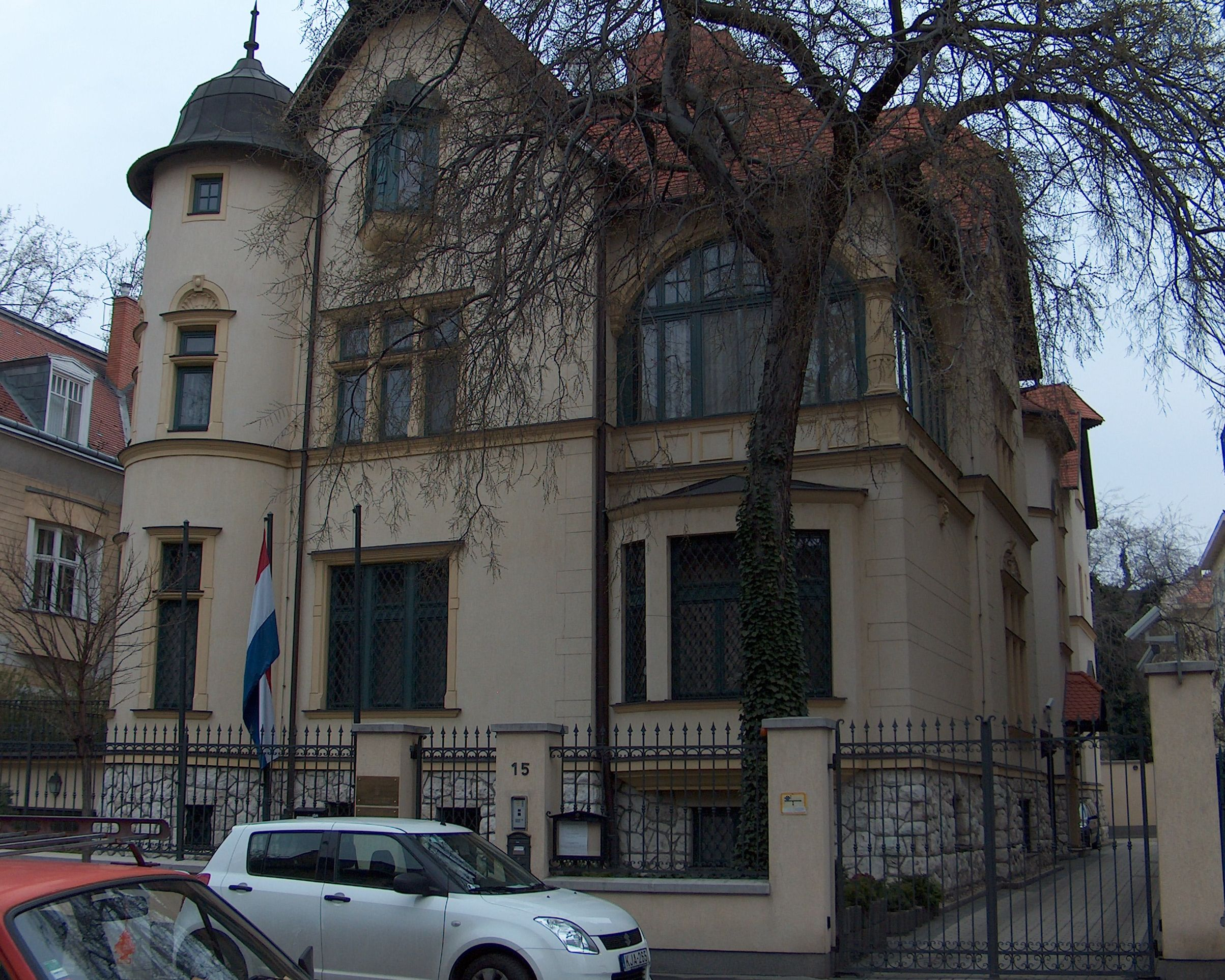 Embassy of Croatia - Budapest